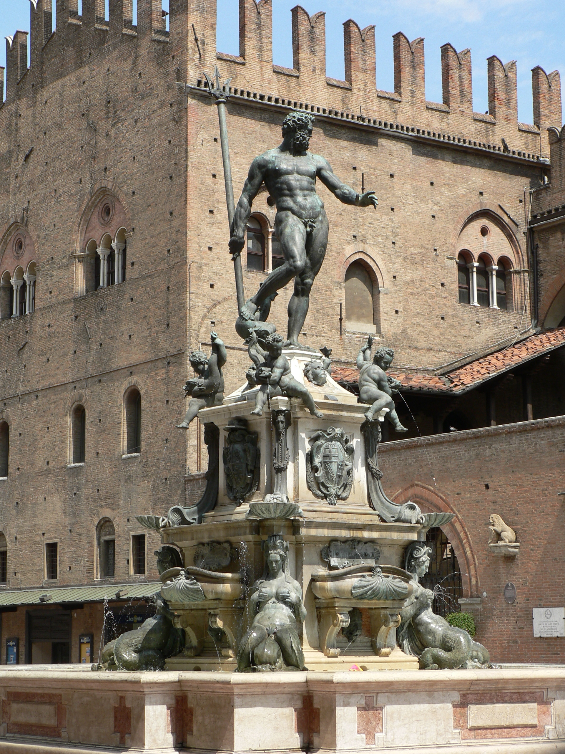 The Fountain of Neptune, by Jean de Boulogne, in "Piazza Maggiore" square at Bologna, Italy.